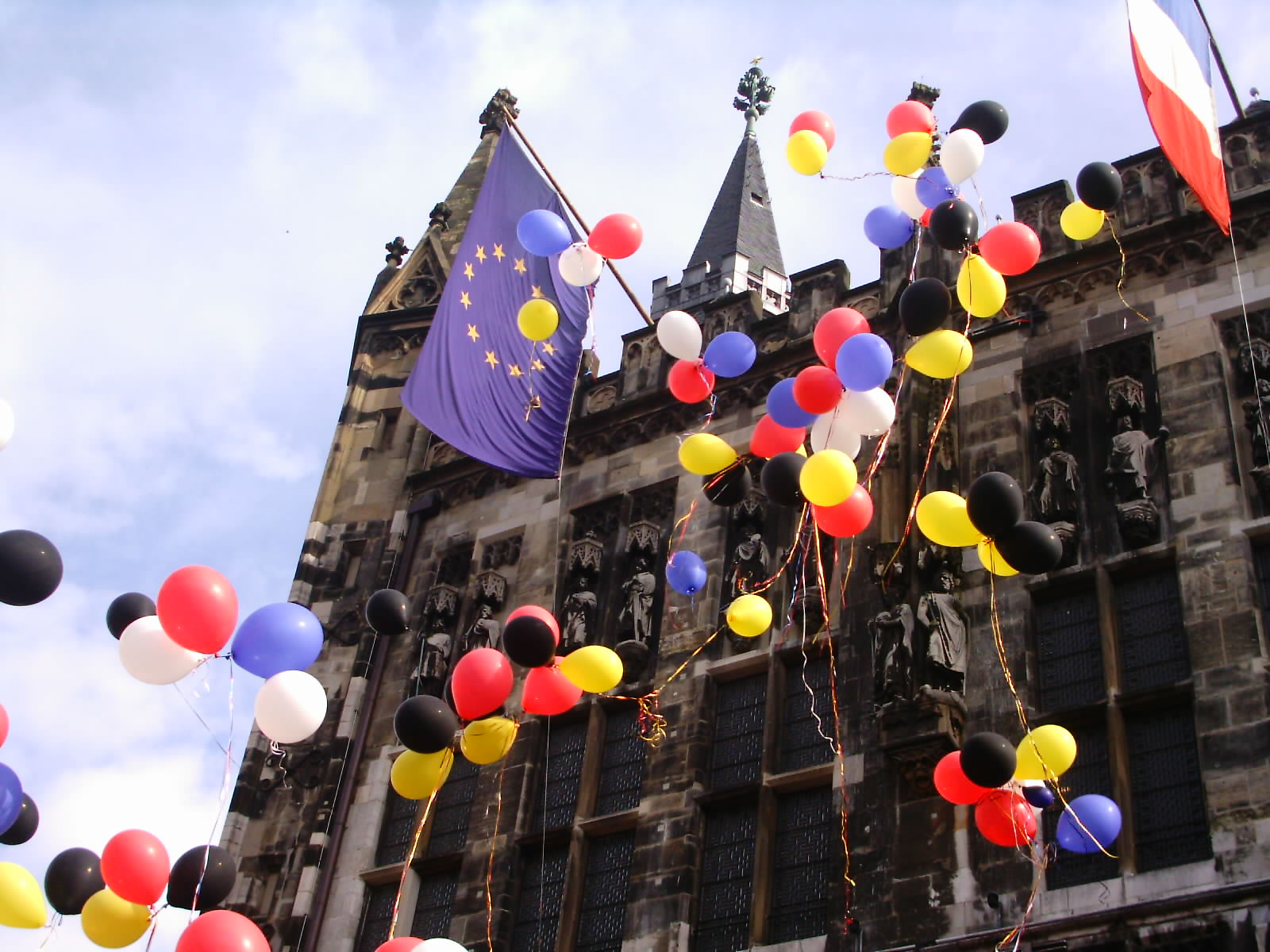 Day of the encounter between Gerhard Schröder and Jacques Chirac in Aachen, Germany. Balloons fly in front of the Rathaus (cityhall).